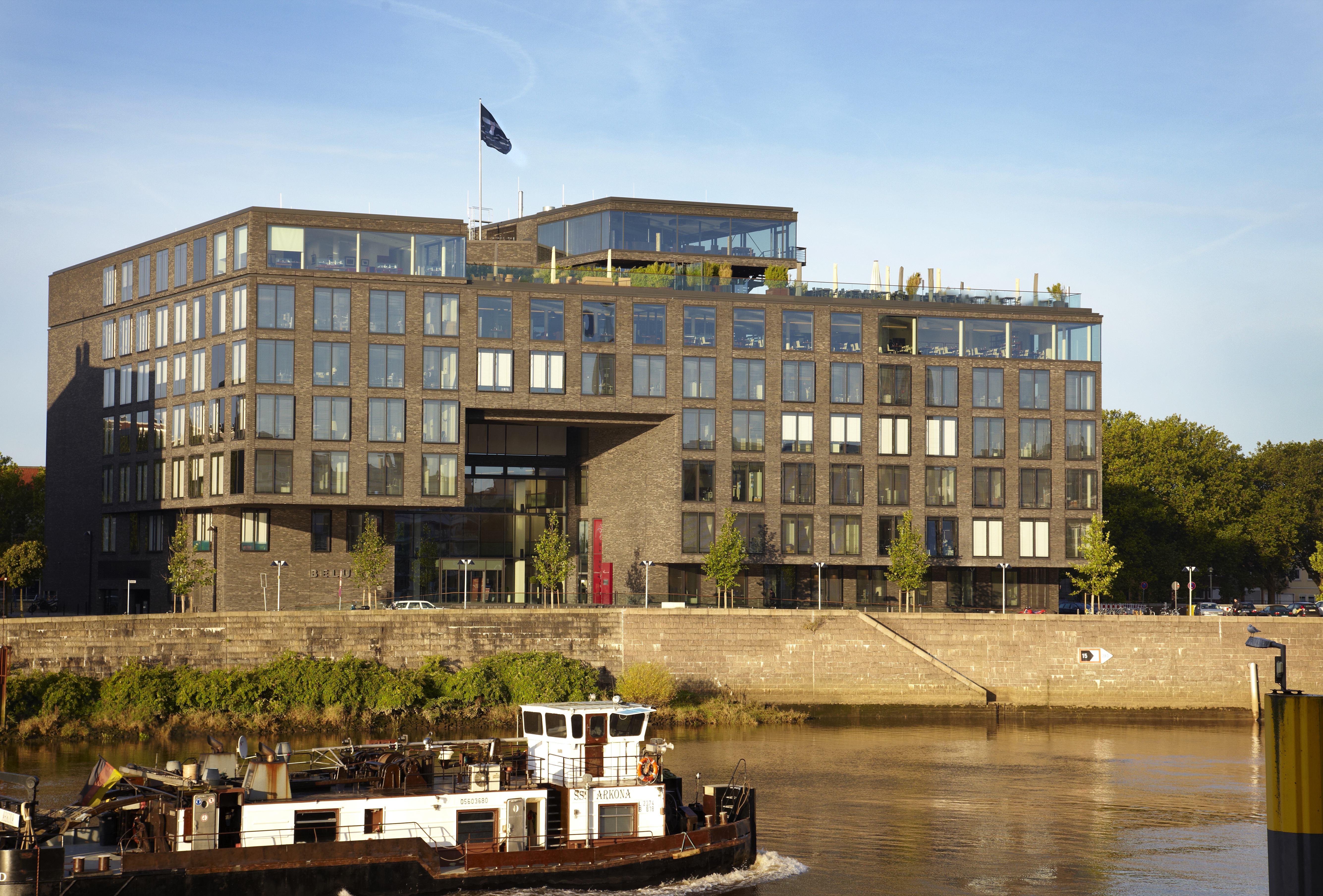 Beluga Shipping Headquarters